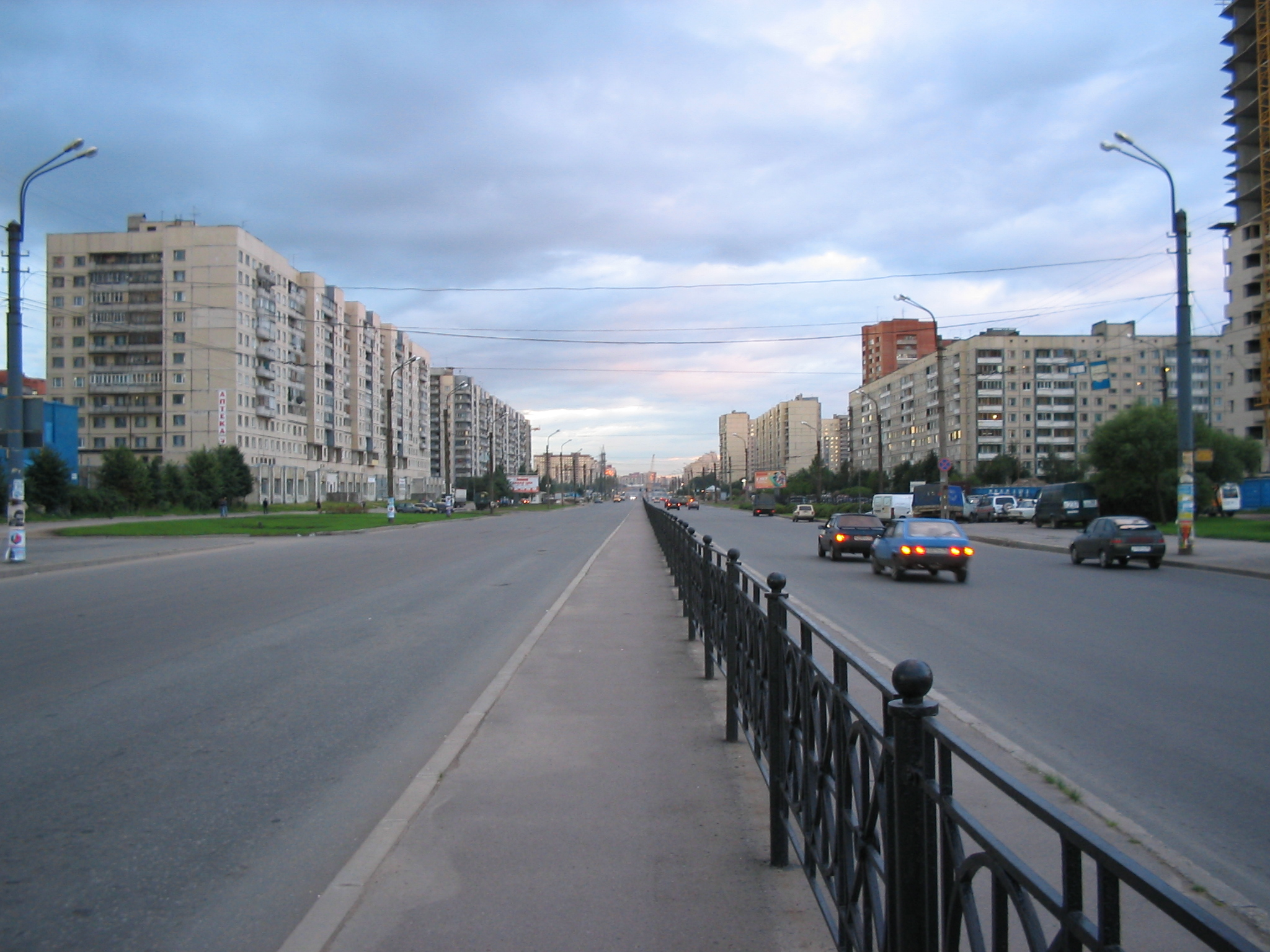 Industrialny Prospekt